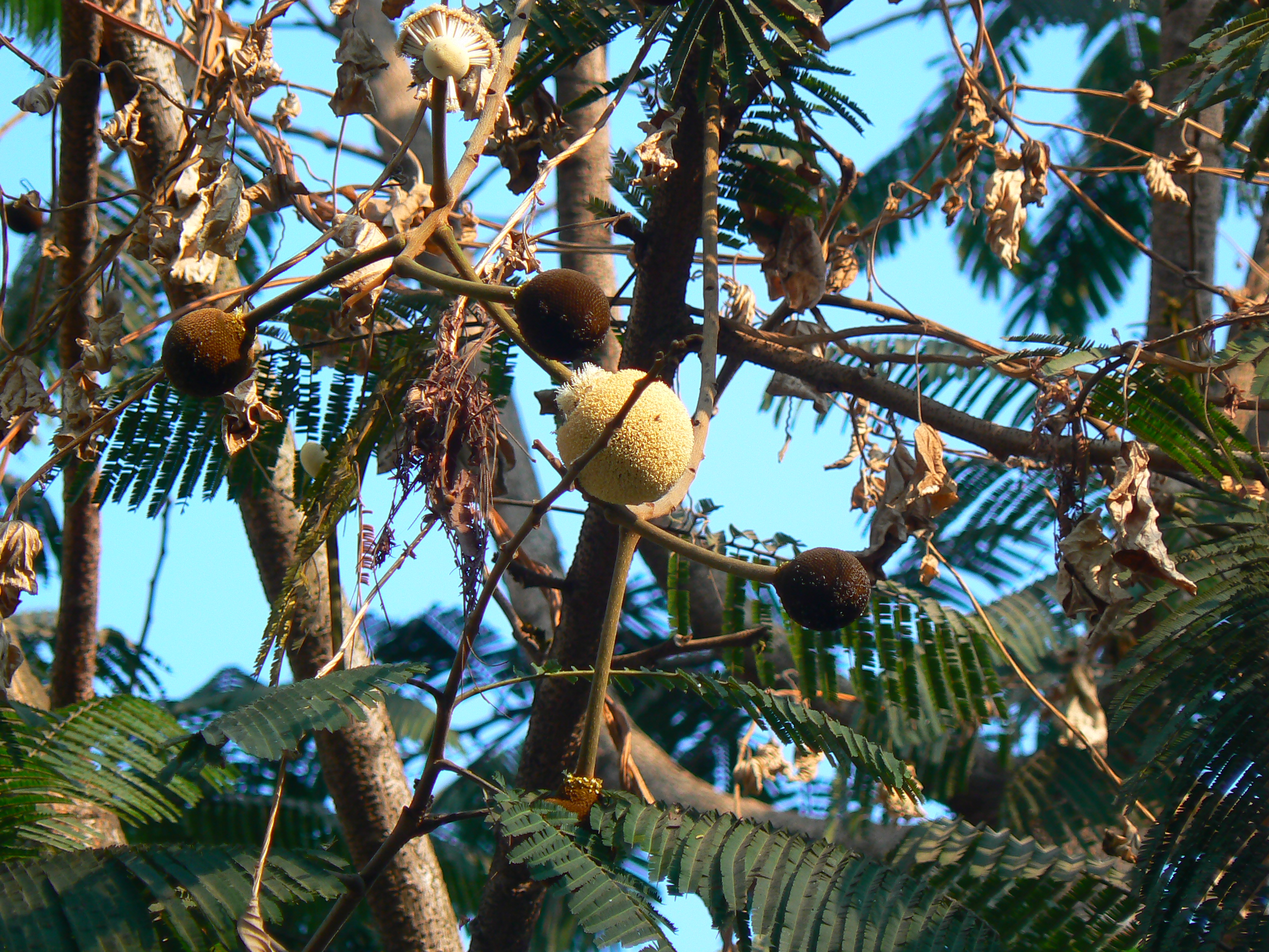 Leguminosae or Fabaceae s. l. (legume, pea, or bean family) » Parkia biglandulosa PAR-ki-uh -- named for Mungo Park, the famous African explorer by-gland-yoo-LOH-suh -- meaning, prescence of two glands commonly known as: African locust tree, badminton ball tree, gong-stick tree • Hindi: चेन्डुफल chenduphal, तप्पोफल tappophal • Kannada: ಶಿವಲಿಙ ಮರ shivalingamara • Marathi: चेंडूफळ chenduphal, गेंद genda, झेंडू jhendu • Tamil: சாம்பிராணி campirani, கலிக்கிமரம் kalikki-maram Origin: south-east Asia, Malaya References: Flowers of India • Gardentia • Forest Flora of Andhra Pradesh • बहर by Dr. Shreesh Kshirsagar